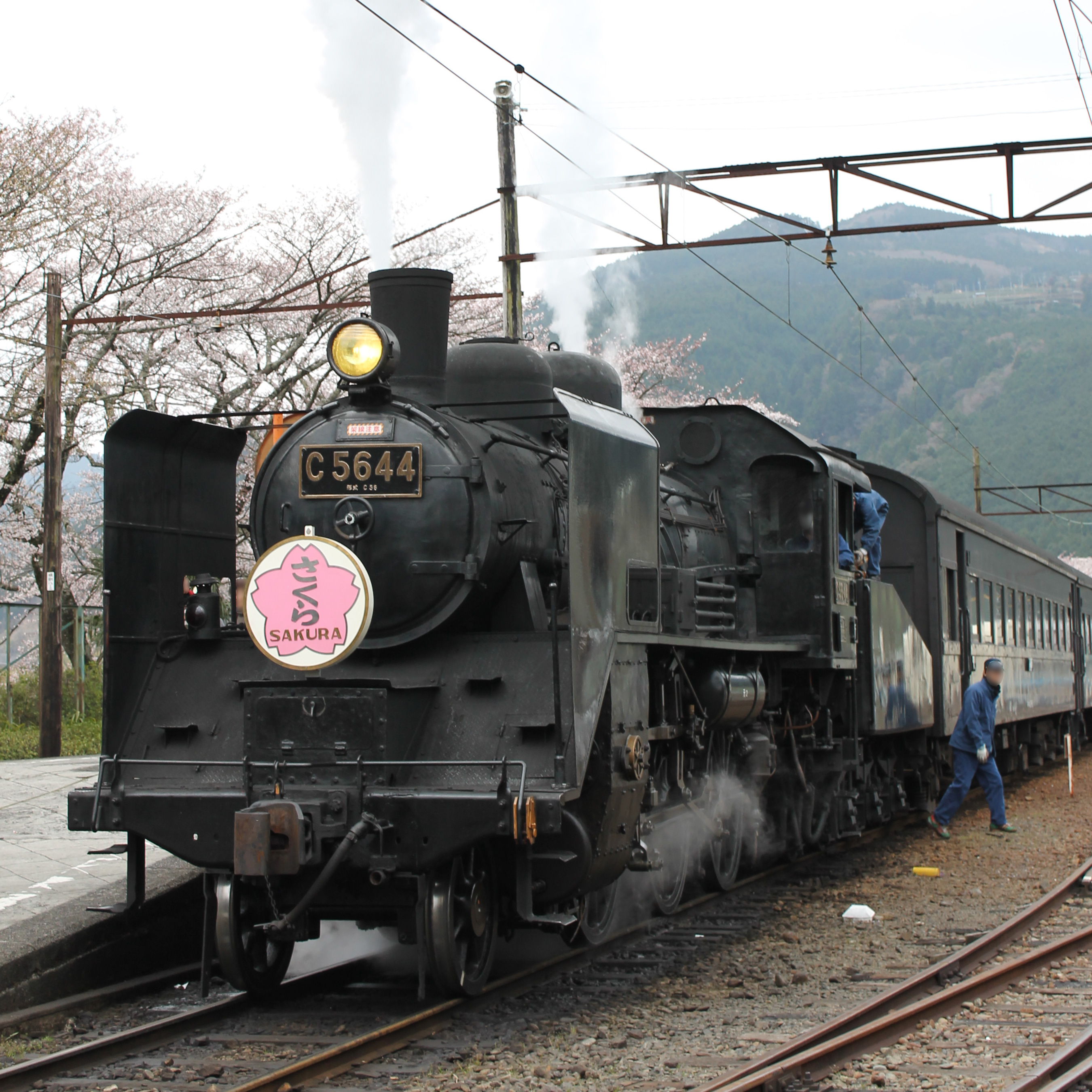 JNR Steam Locomotive Class C56 44 (operated by Oigawa Railway)